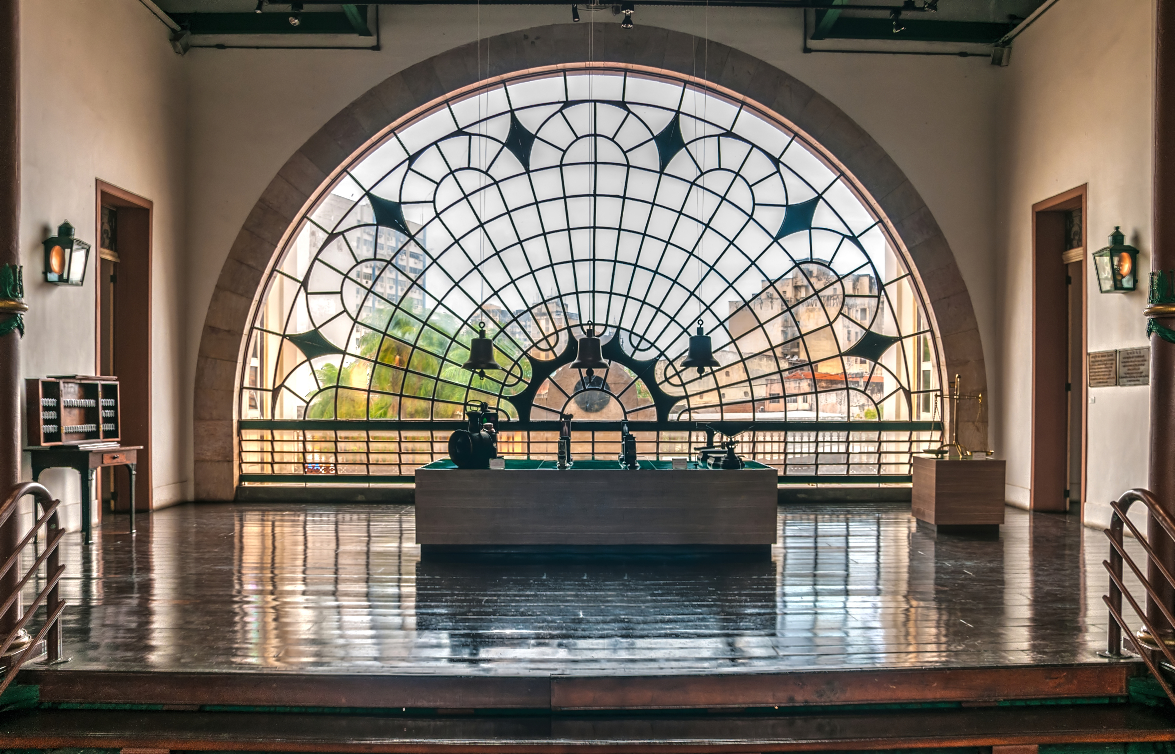 Metro Museum of recife (Museu do Trem), Pernambuco, Brazil